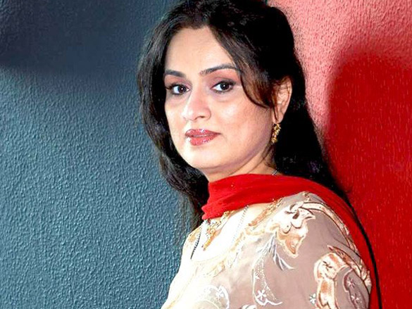 Padmini Kolhapure returns with film Saath Rahega Always